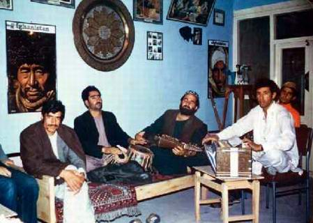 I took this photo during a visit to Herat in 1973